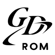 GD-ROM's logo